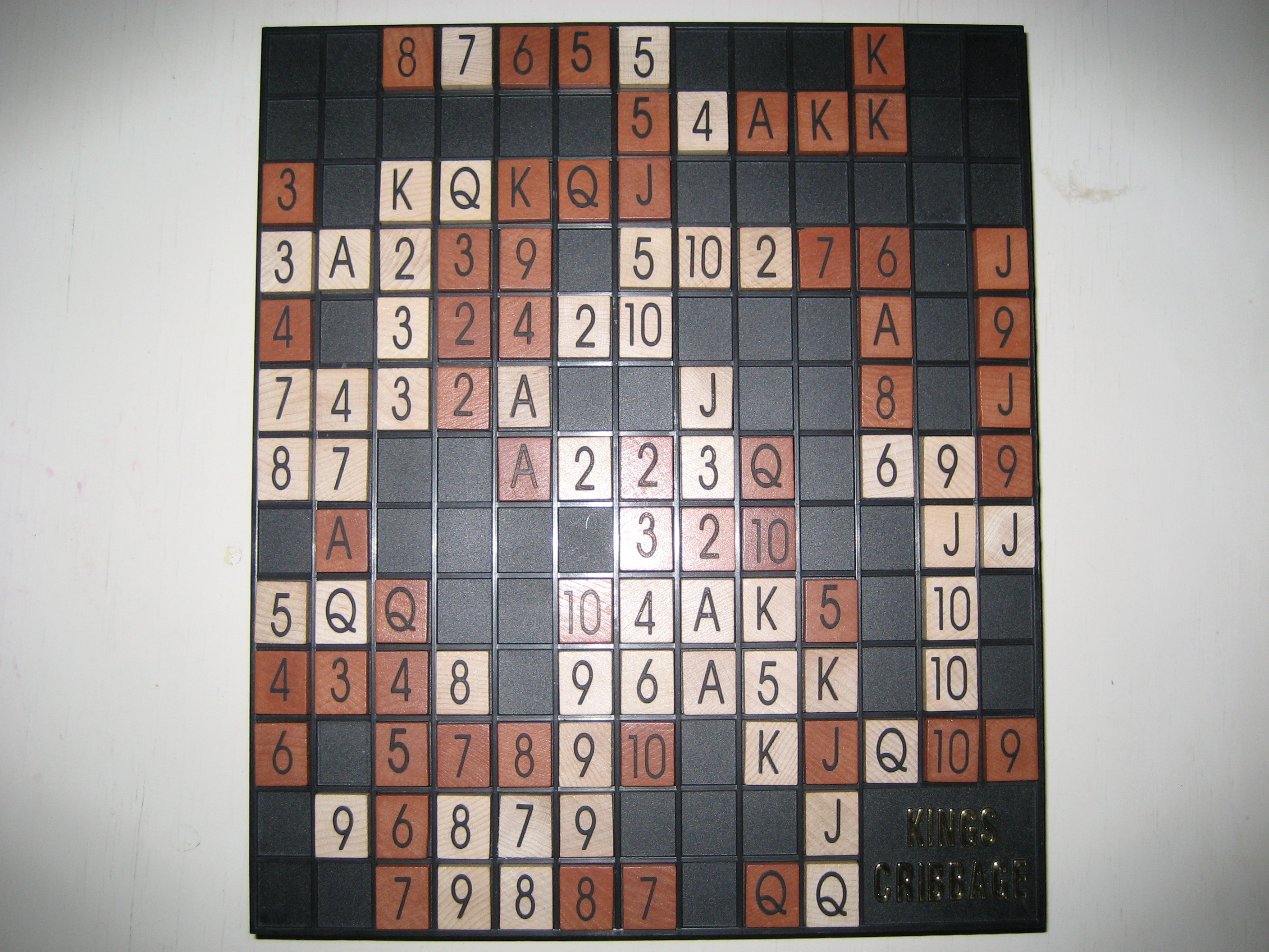 A completed game of Kings Cribbage Photograph by Ian Hudson